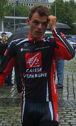 David Lopez García - spanish cyclist